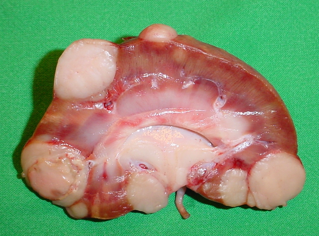 renal metastasis of a carcinoma in a dog